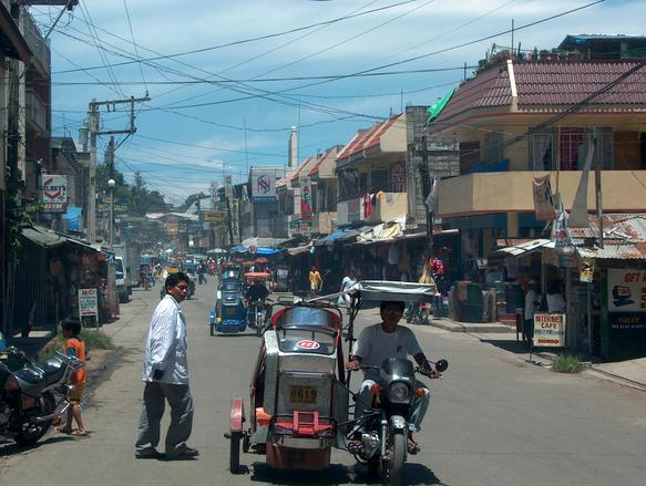 Downtown Masbate City, Masbate, Philippines